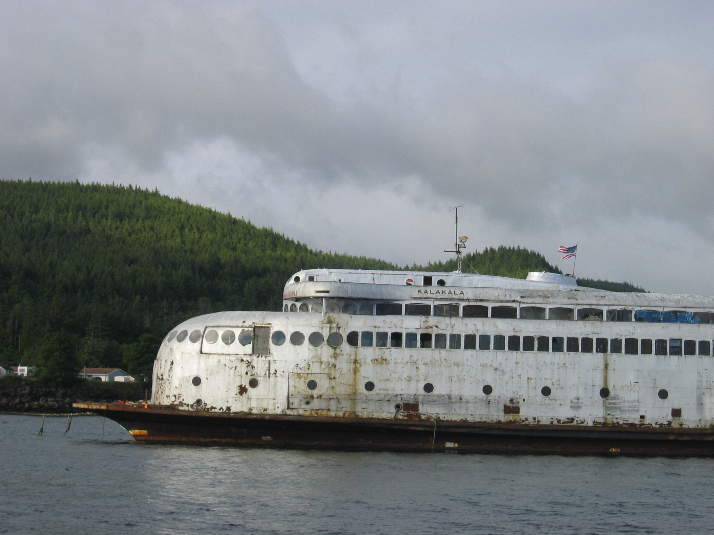 The rusty remains of the Kalakala ferry MV Kalakala.